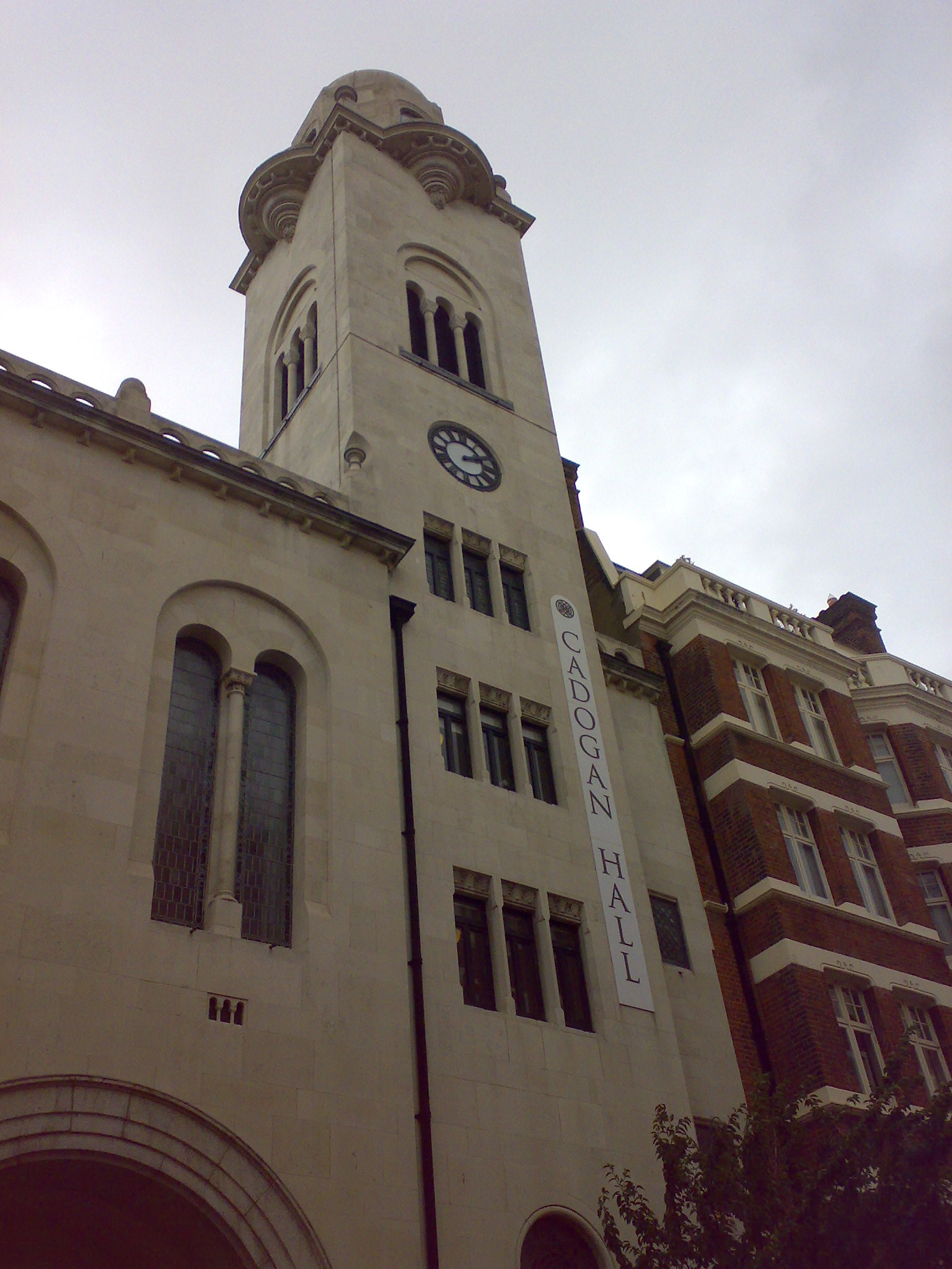 The tower of the Cadogan Hall, London, England.